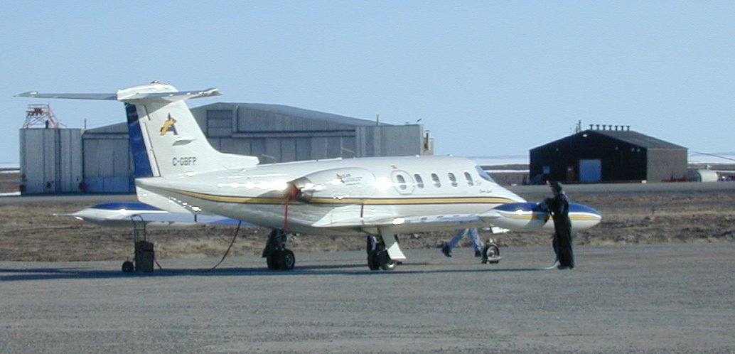 C-GBFP Adlair Aviation Learjet 25B (LJ25) at Cambridge Bay Airport, Nunavut, Canada